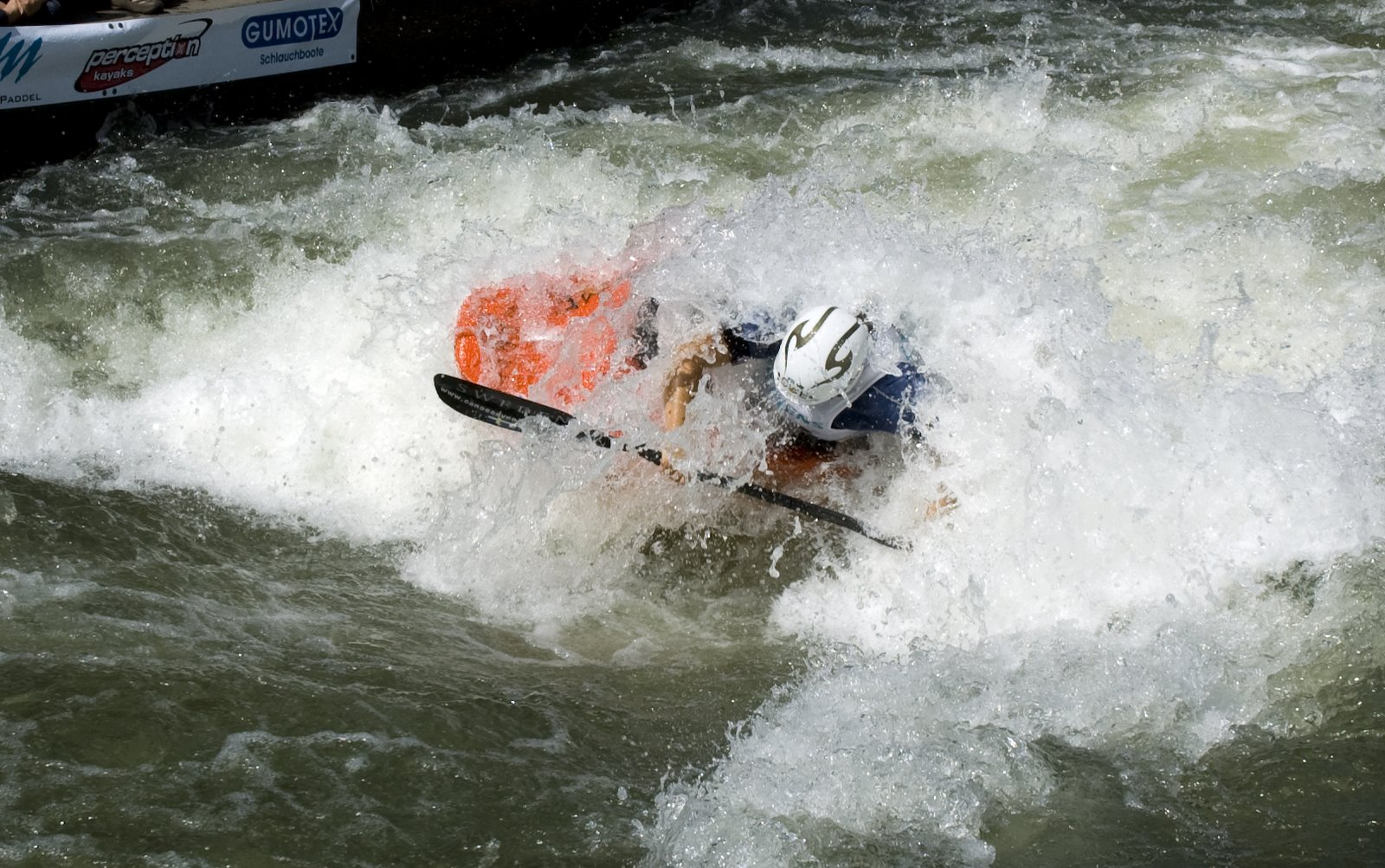 Maria Lindgren, cartwheel. Photo Mats Wålstedt